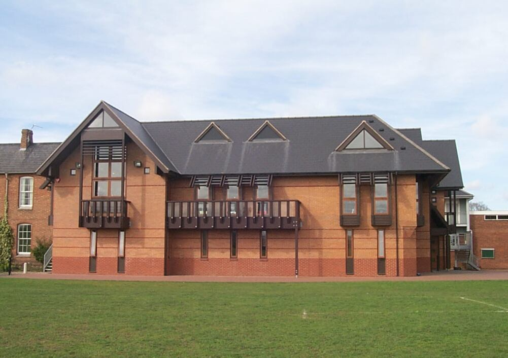 The Masefield Centre, Warwick School, Warwick, England. Contains the school library and the ICT department.